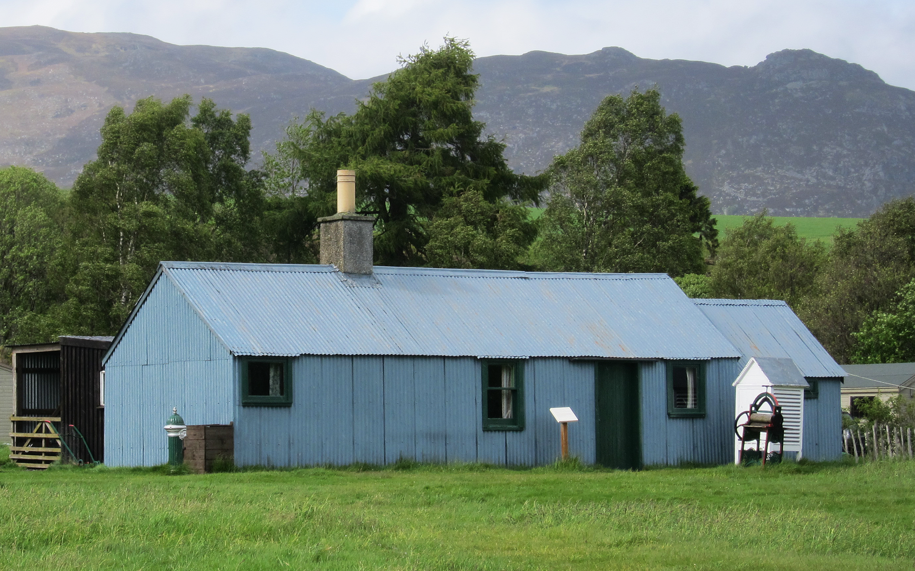 Aultlarie Tin Cottage at the Highland Folk Museum, Newtonmore, Scotland